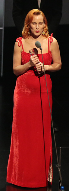 Accessory Designer: The leading British designer of shoes, jewellery, millinery or accessories within the past year who has been instrumental in enhancing accessories within fashion. WINNER: Charlotte Olympia Presented by Olga Kurylenko